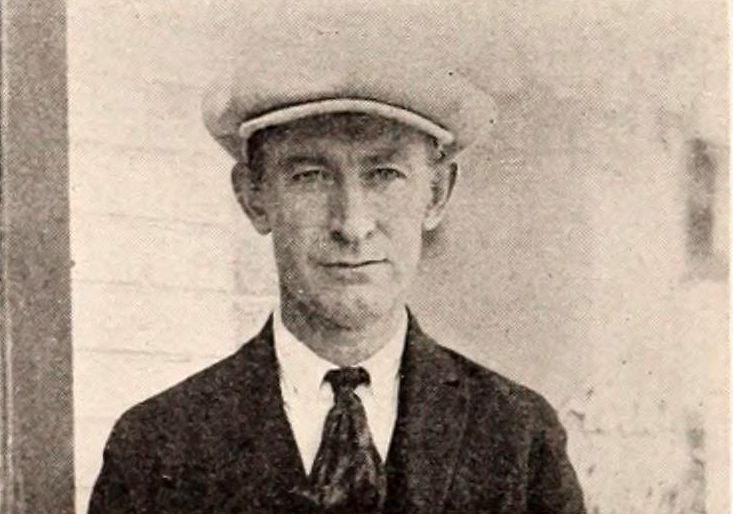 Illustration of an article in Exhibitor's Herald on the American film The Power of Love